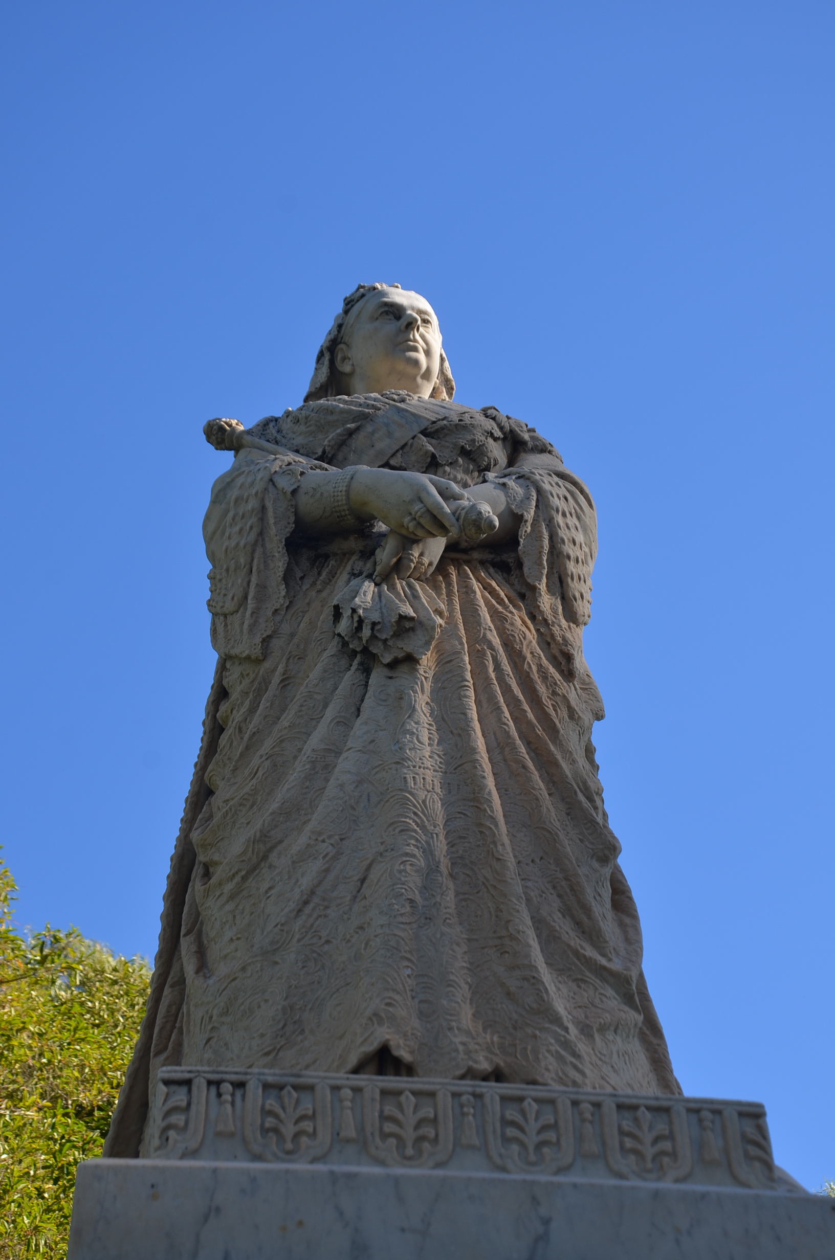 Queen Victoria statue in Kings Park